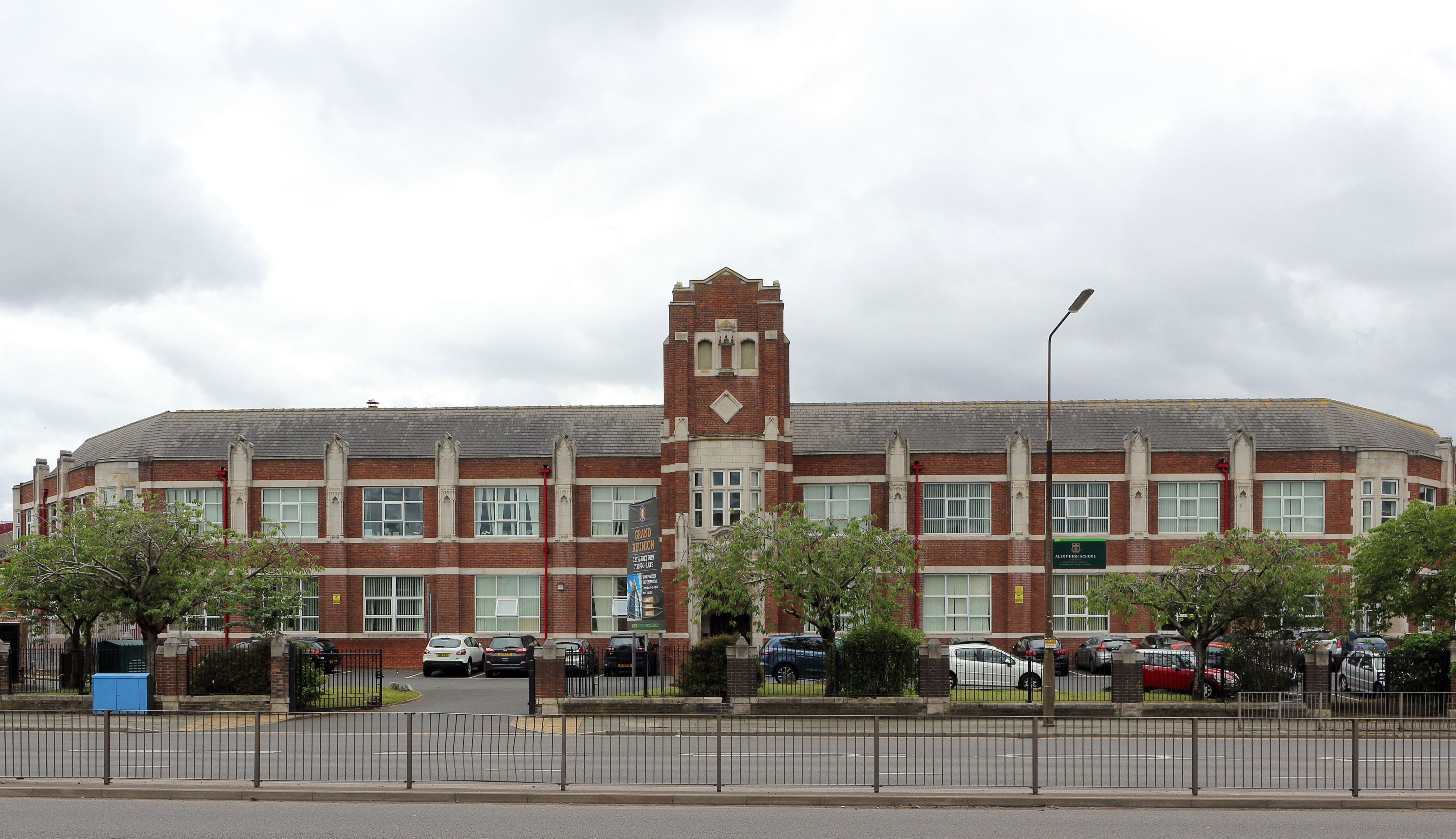 The 1926 building seen across Queens Drive.